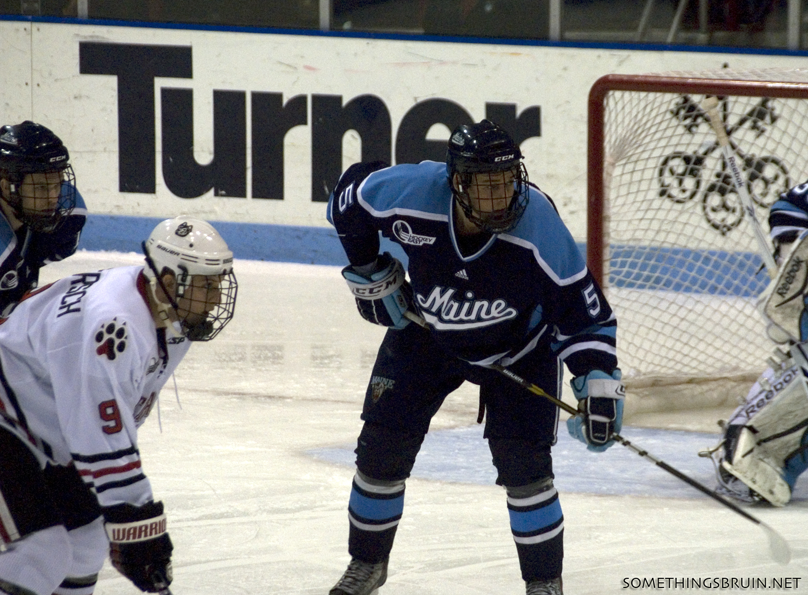 ERI_3775 Northeastern Huskies vs. Maine Black Bears of the Hockey East Association, NCAA Division I. Photo taken by Sarah Connors on January 22, 2011. This photo also appears in Sarah Connors' Flickr set “Maine @ Northeastern" (Set of 55)